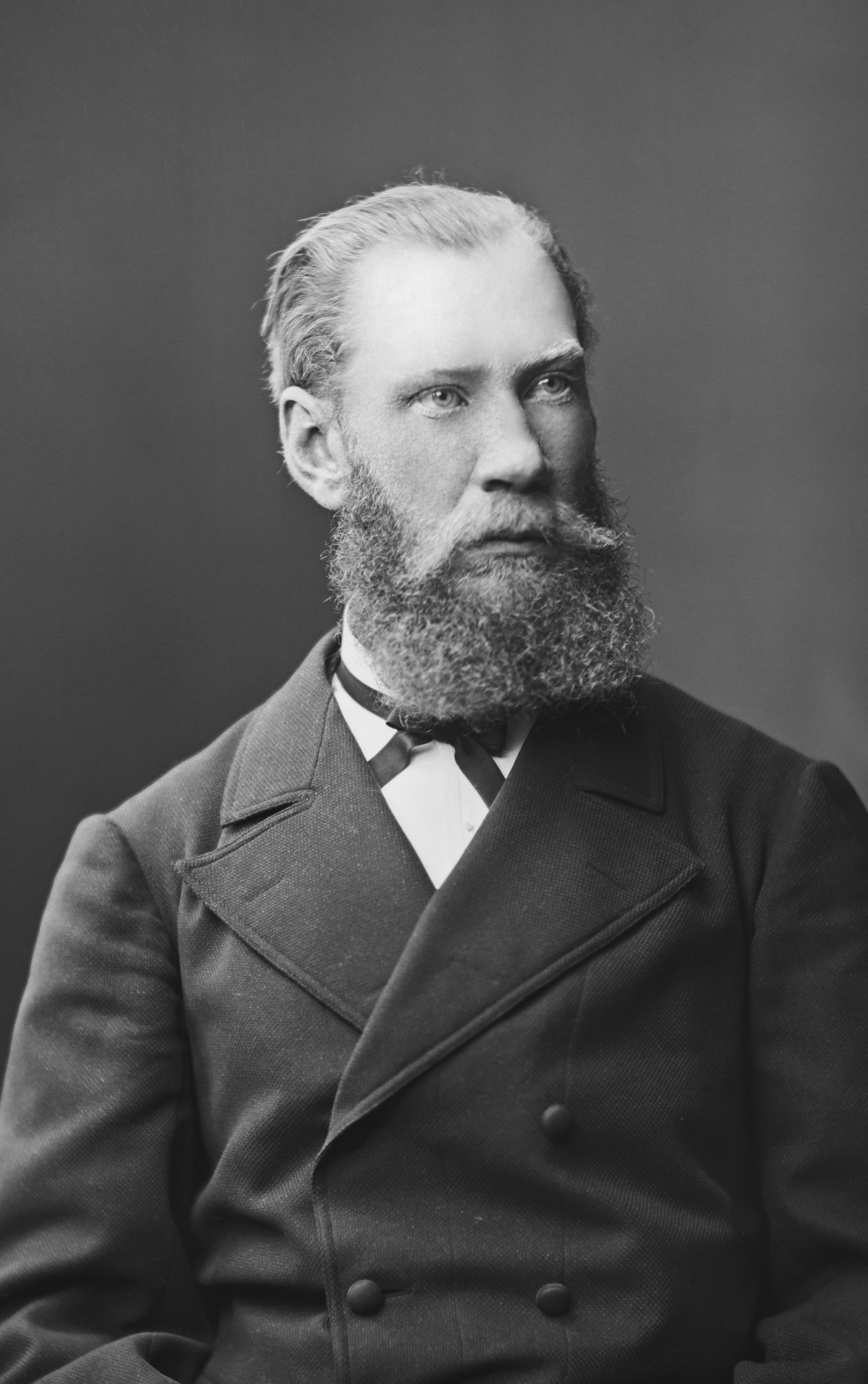 Photograph of the Finnish lawyer Hans Gustaf Boije (1828–1903).